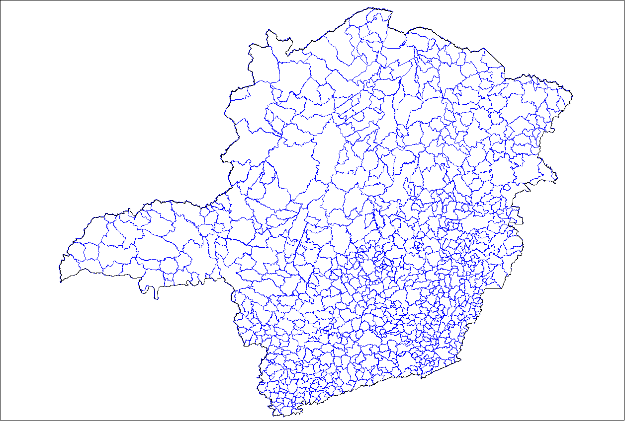 Map of the municipalities of the state of Minas Gerais, Brazil. Created by Rarelibra 21:58, 24 August 2006 (UTC) for public domain use. Created using MapInfo Professional v8.5 and various mapping resources.